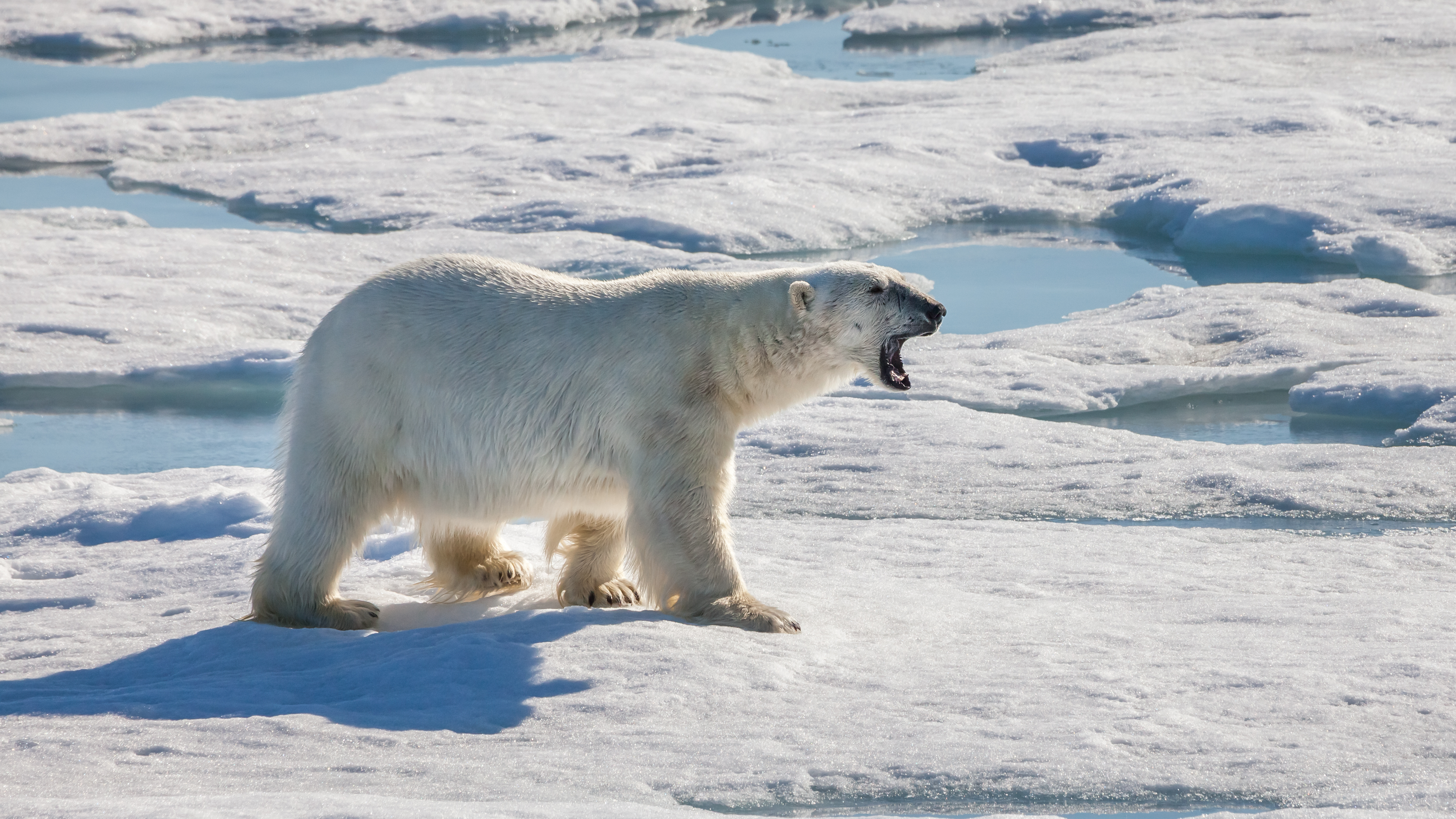 This male polar bear (Ursus maritimus) failed to catch a bearded seal and is on his way to find another prey.